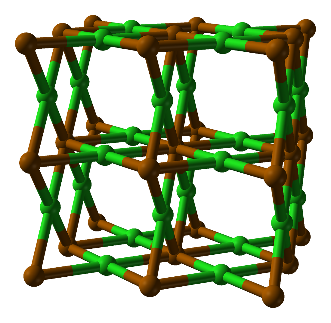 Ball-and-stick model of part of the crystal structure (2x2x2 unit cells) of polonium dichloride, also known as polonium(II) chloride, PoCl2. X-ray crystallographic data from J. Chem. Soc. (1955) 2320-2326. Model constructed in CrystalMaker 8.1. Image generated in Accelrys DS Visualizer.